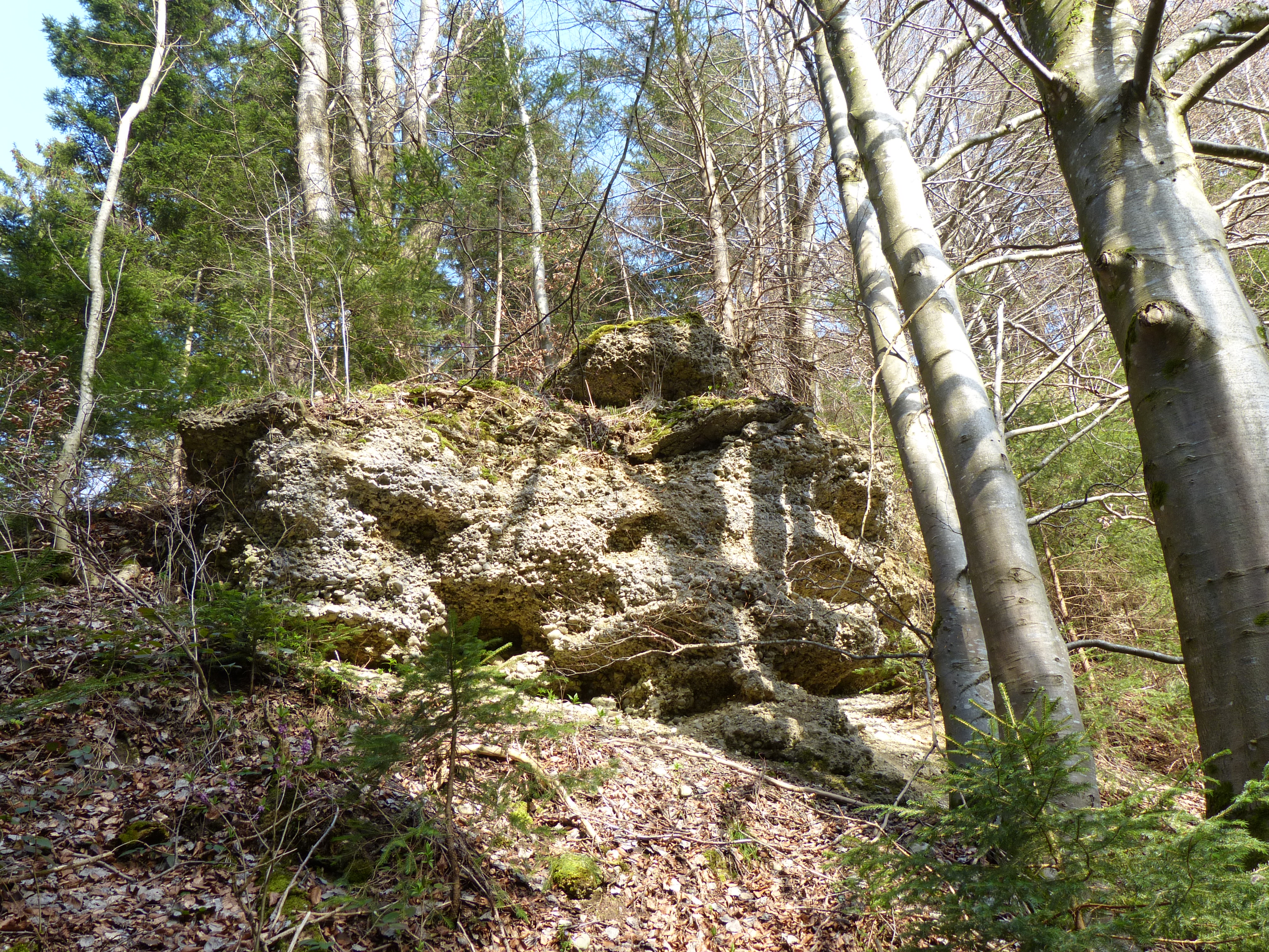 Geotop No. 778A001, Conglomerate-Outcrop, west direction of Bad Grönenbach, Landkreis Unterallgäu, Bavaria